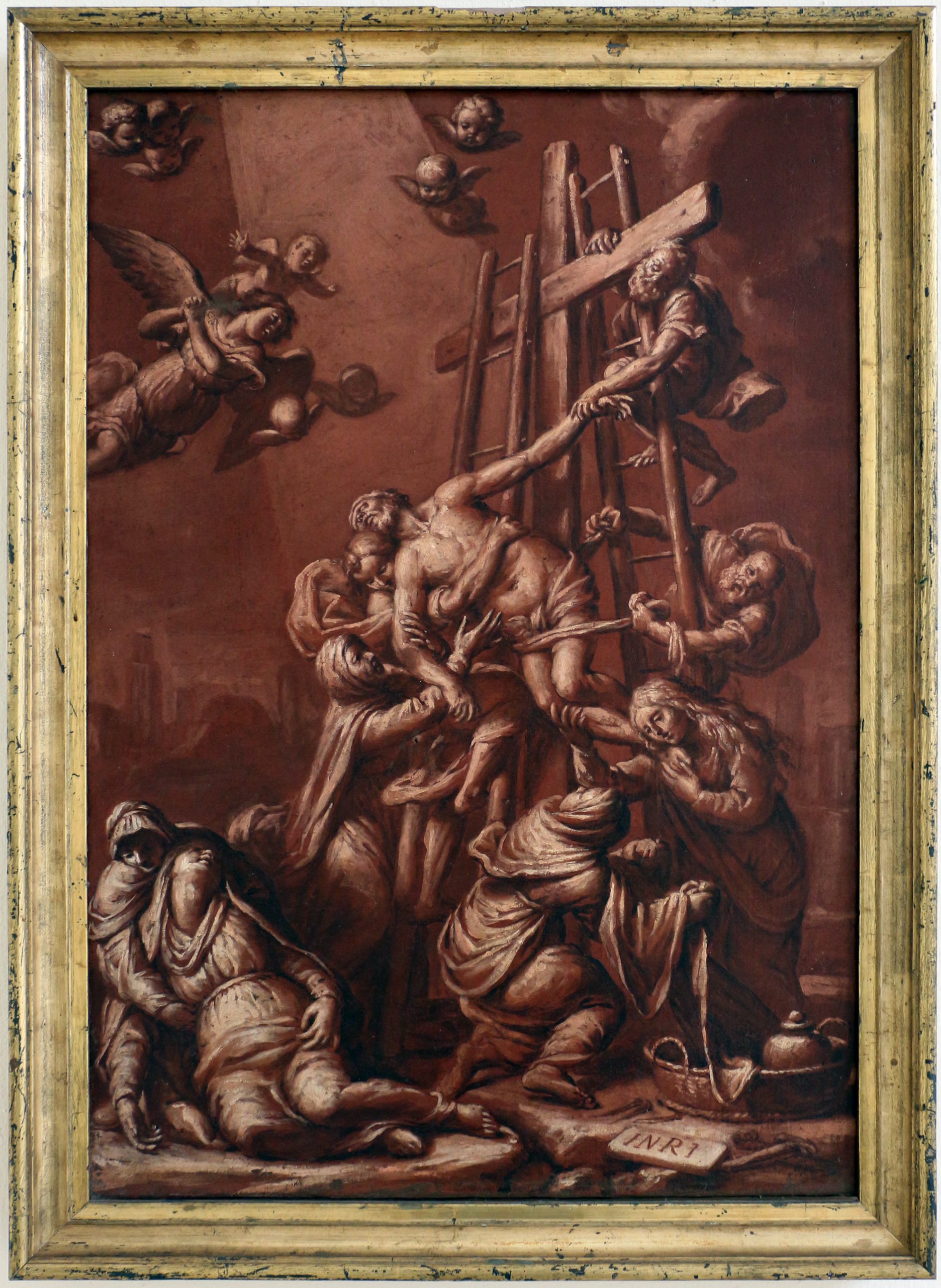 The Deposition